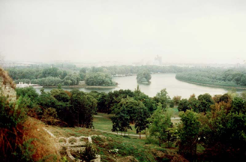 Confluence of the Danube and the Sava, viewed from the Kalemegdan. Belgrade, Serbia.